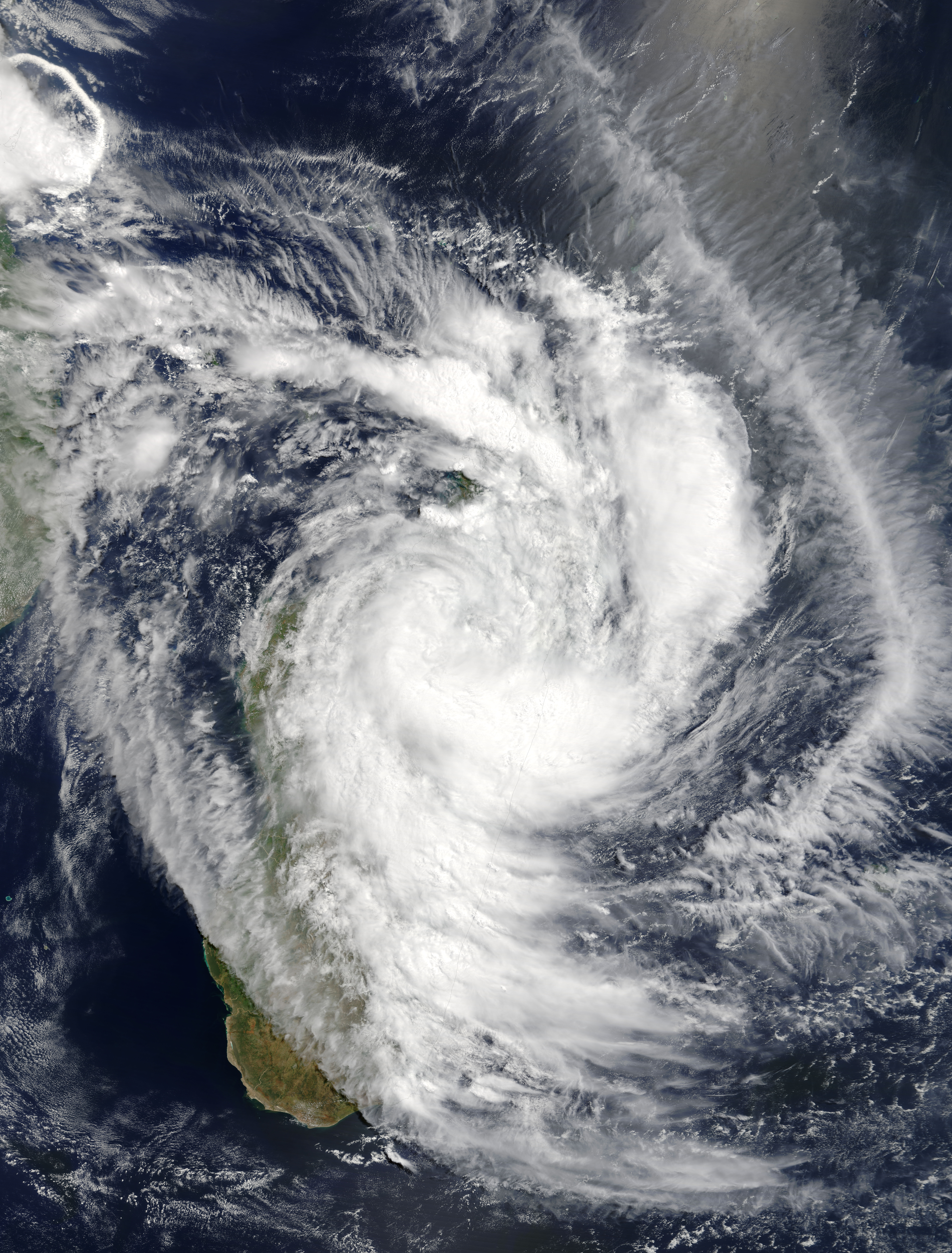 Overland Depression Ex-Enawo over Madagascar on 8 March 2017.